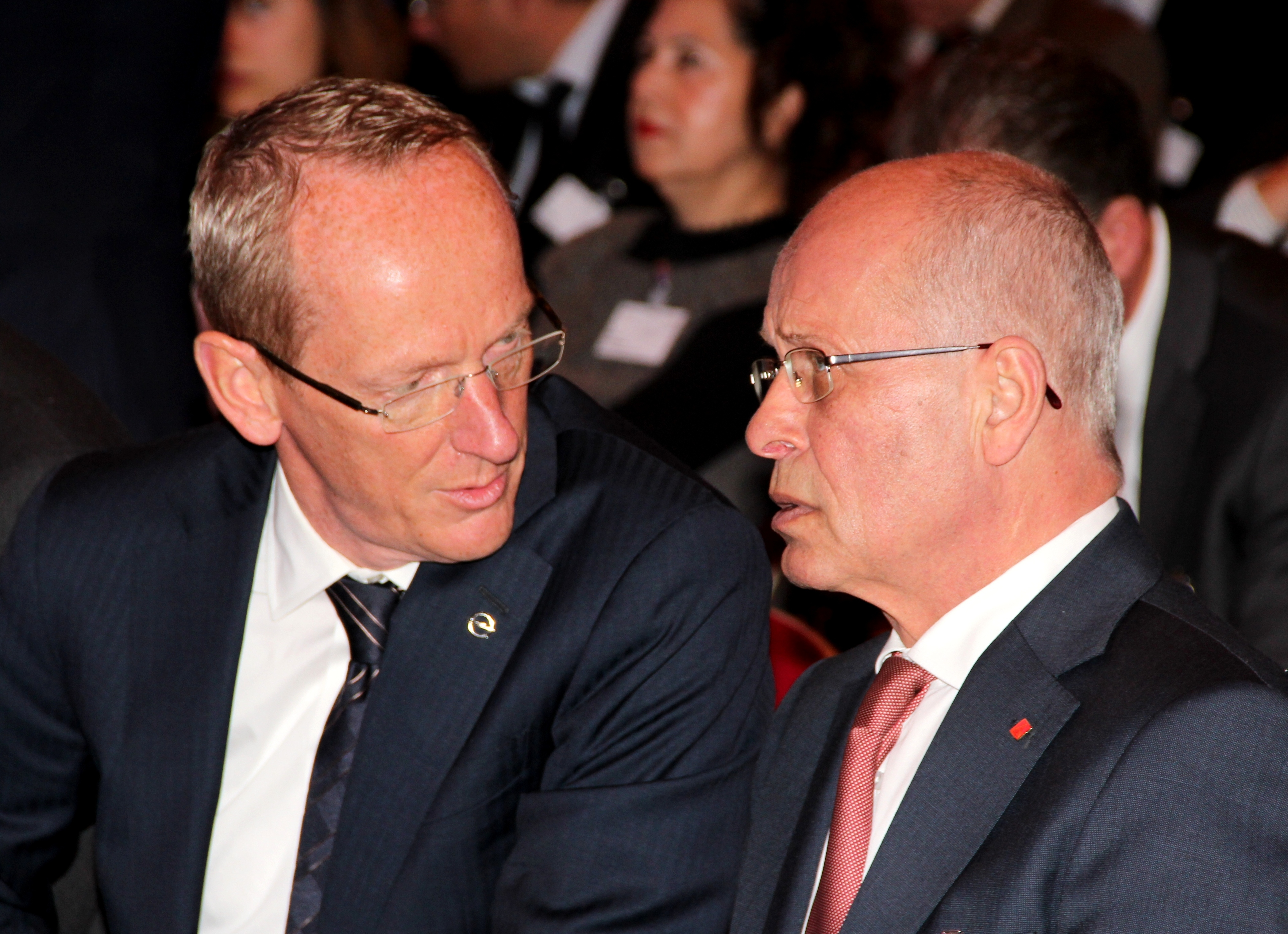 Berthold Huber, President of German trade union IG Metall and Karl-Thomas Neumann, CEO of Opel